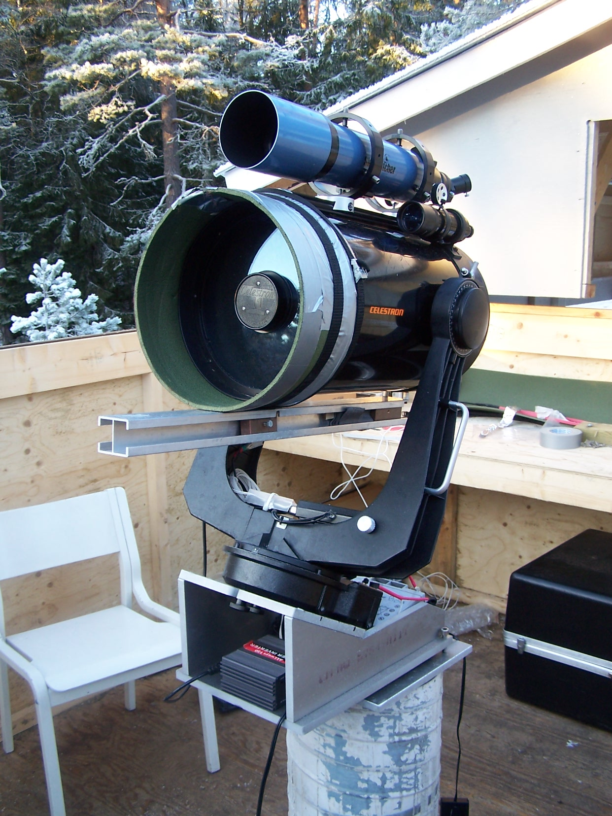 Komakallio observatory in Volsi, Kirkkonummi, Finland